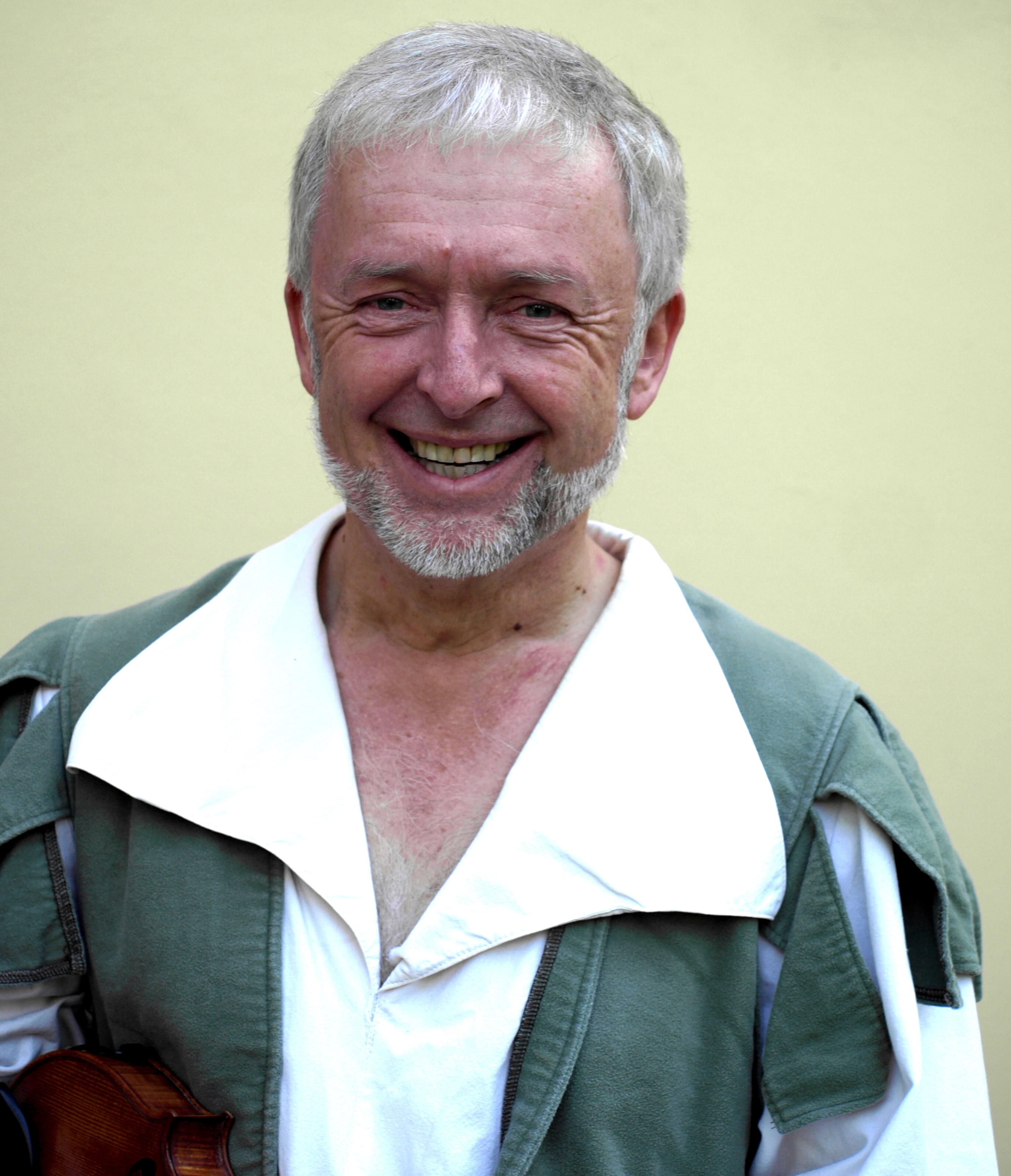 Jan Filip - frontman group "Kantoři"